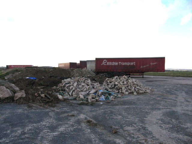 Dump on disused runway This runway was part of RAF Melton Mowbray. It is now used for parking HGV vehicles and the storage (fly-tipping??) of soil and rubble.